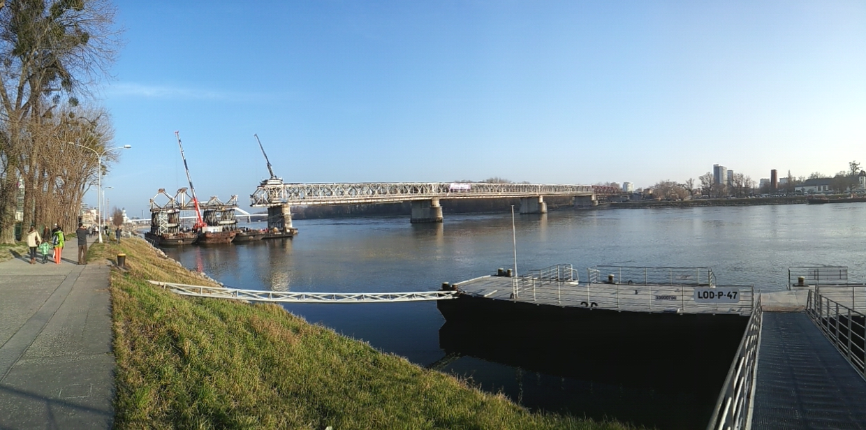 Dismounting of Stary Most is in progress.